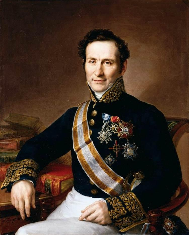 Portrait of Mateo Casado y Sirelo.